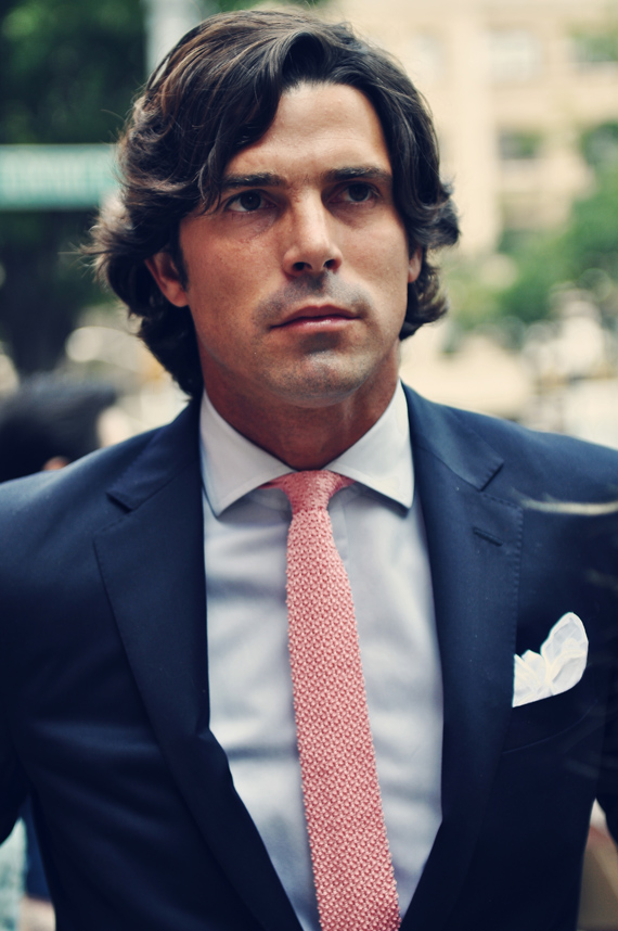 Nacho Figueras, photographed by Jiyang Chen